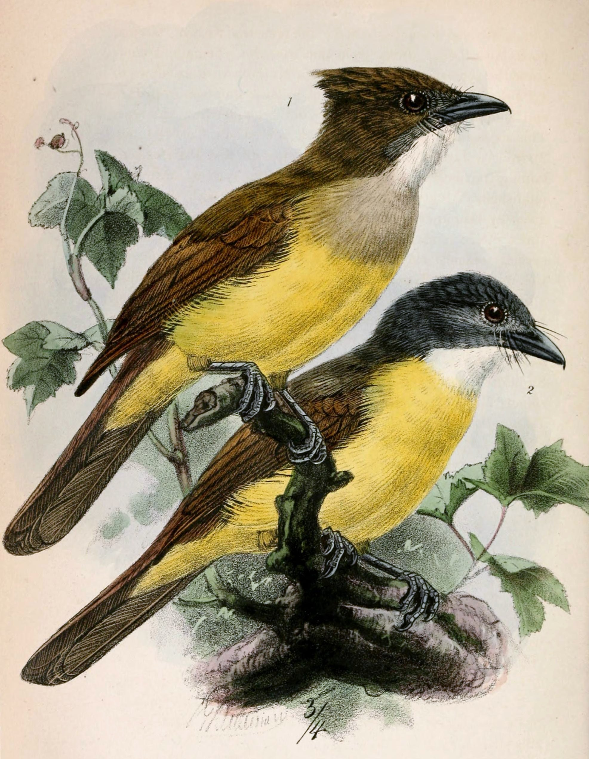 « Criniger gularis » = Alophoixus bres (Grey-cheeked Bulbul) « Criniger phaeocephalus » = Alophoixus phaeocephalus (Yellow-bellied Bulbul)